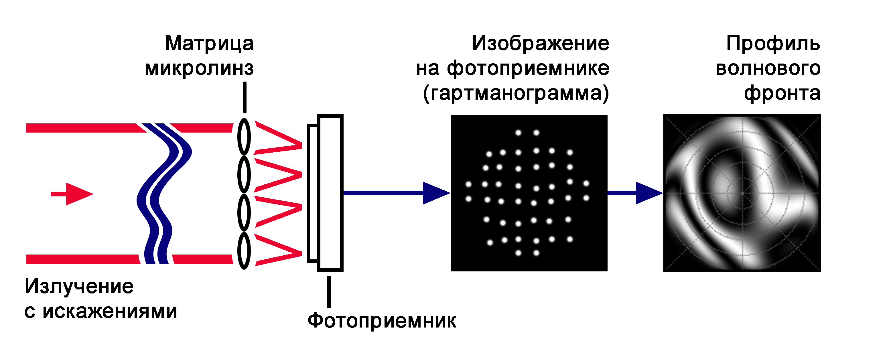 Scheme of Shack-Hartmann wavefront sensor